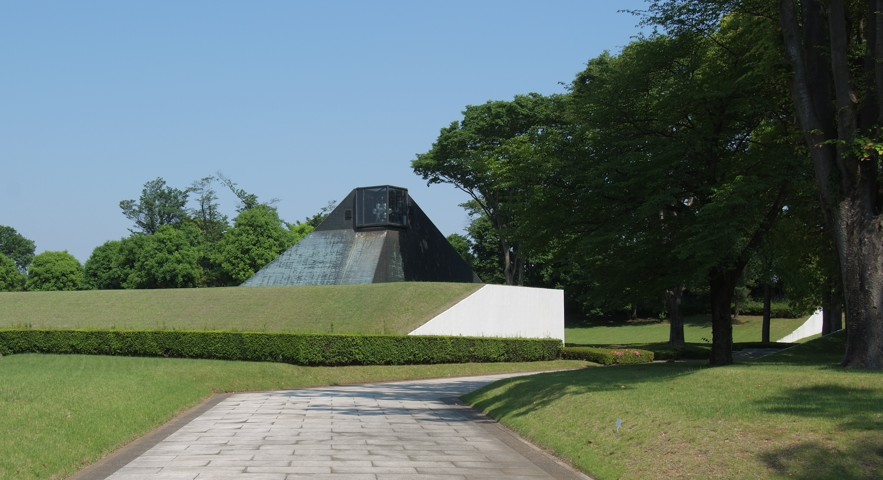 Chapel for The Tokorozawa Seichi Cemetery, Tokorozawa Saitama Japan, designed by Yoshiro Ikehara in 1973.